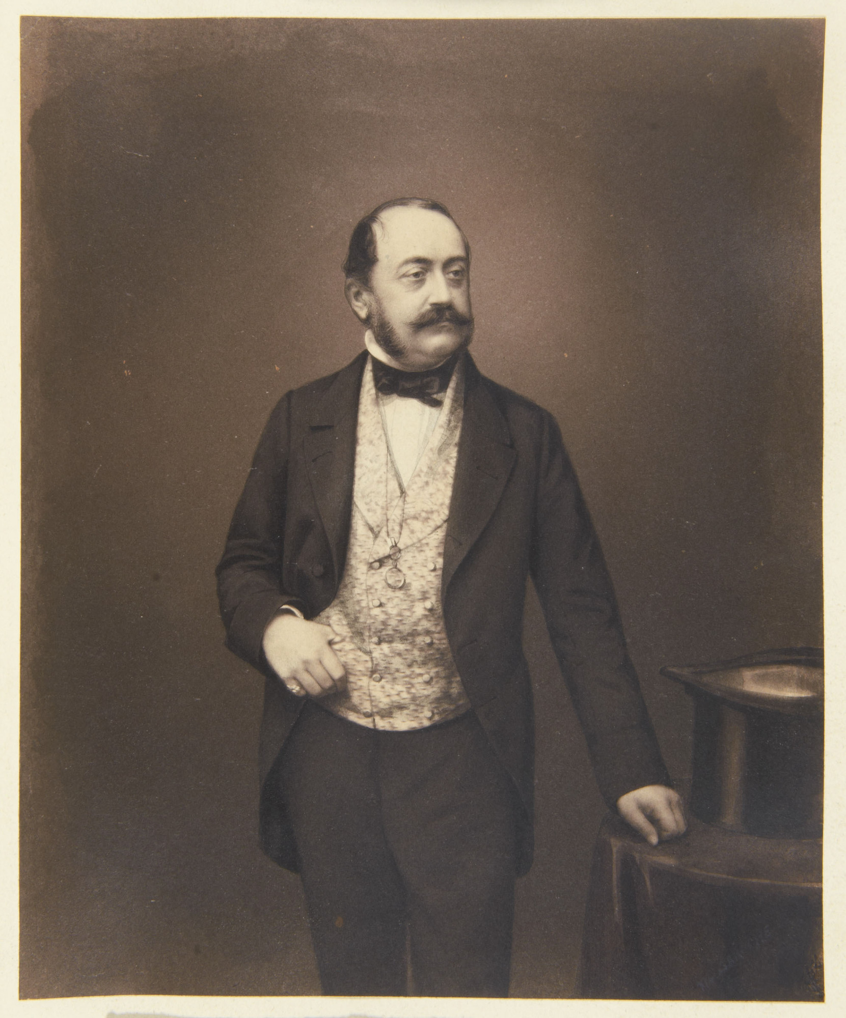 Princes Charles of Leiningen (1804-56), half brother of Queen Victoria of the United Kingdom